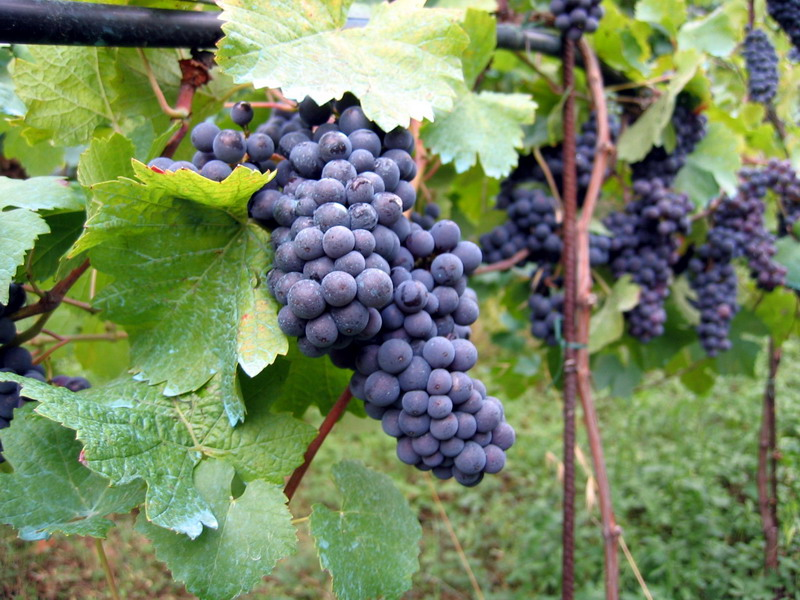 To the right of the pick, an example of vine stake and support can be seen with the vine's cane being attached to the brown metal stake.